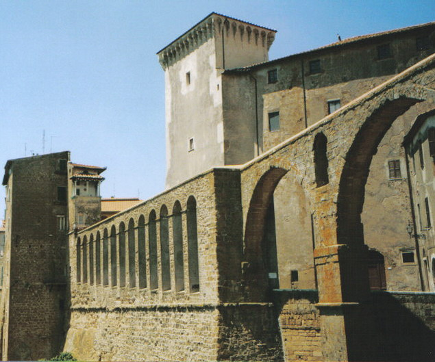 Acqueduct of Pitigliano, Italy